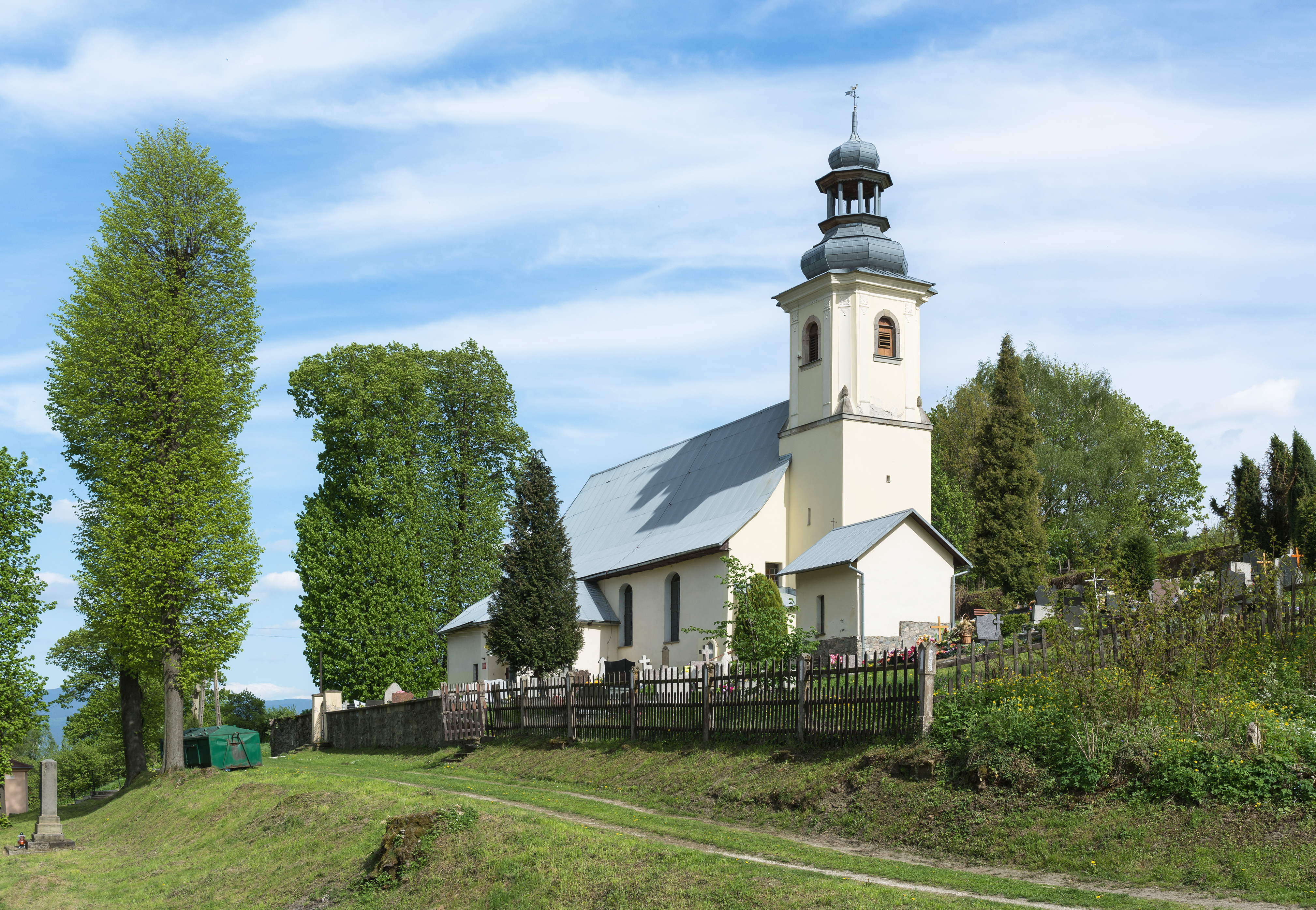 Saint Sebastian church in Poręba